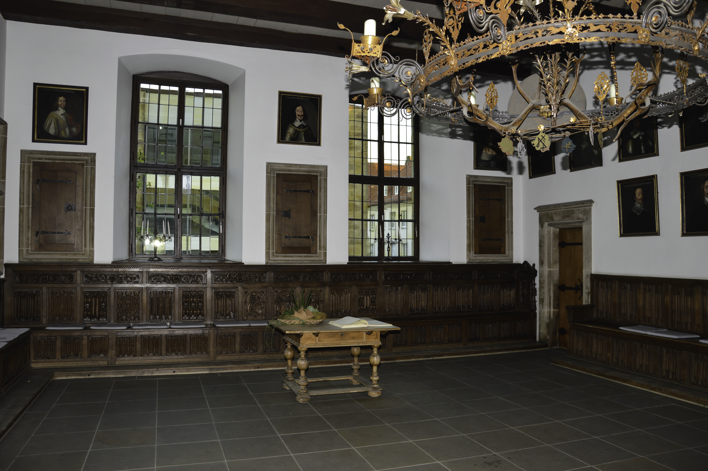 Osnabrück's Peace Hall